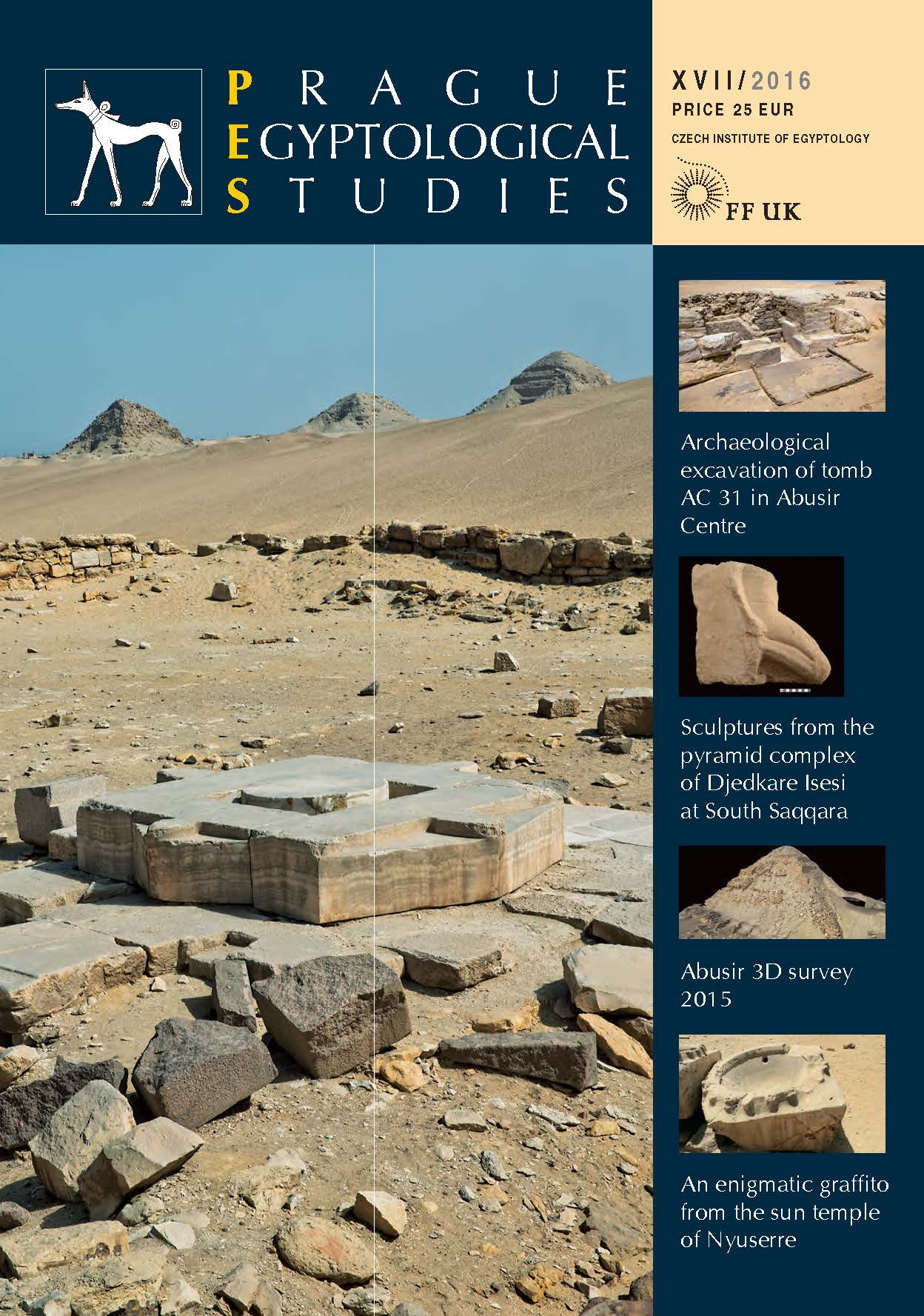 cover of journal "Prague Egyptological Studies" published by Faculty of Arts Press of Charles University